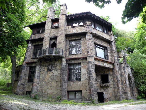 Picture of Frederick C. Sauer's "Heidelberg", an apartment house, located in the Sauer Buildings Historic District at Center Avenue in Aspinwall, Pennsylvania, on May 16, 2010. From 1928 through 1930, Frederick Sauer converted his former chicken coop into this three-story apartment house. After this eccentric building, Sauer gradually transformed his wooded hillside into an architectural fantasy, and a complex of castlesque buildings and landscape features in Fantastic architectural style took shape and was progressively added to until his death in 1942. This building is part of the Sauer Buildings Historic District, which is listed on the National Register of Historic Places.